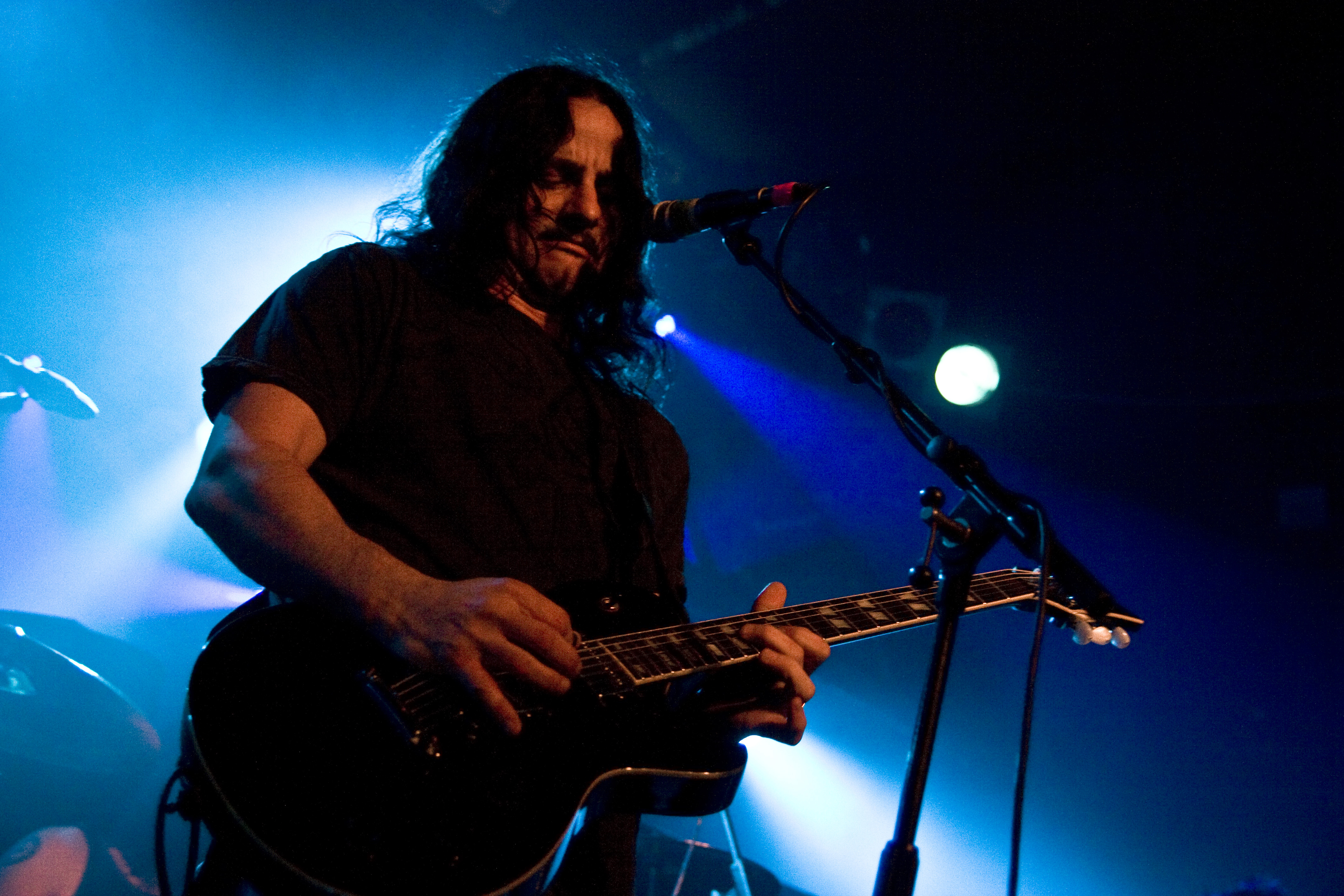 Seventh Void in concert in Razzmatazz 2, Barcelona, Spain.